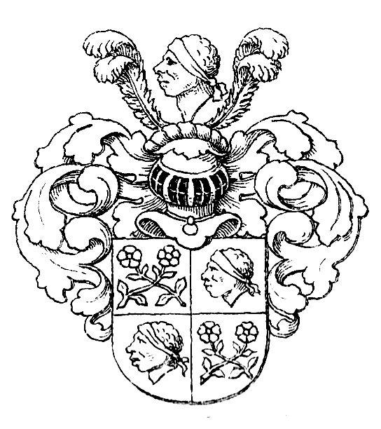 Rosenheim coat of arms in Nyt dansk Adelslexikon by Anders Thiset.